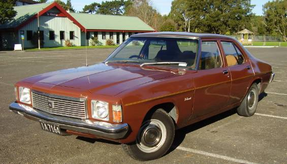 1974-1976 Holden HJ Belmont.